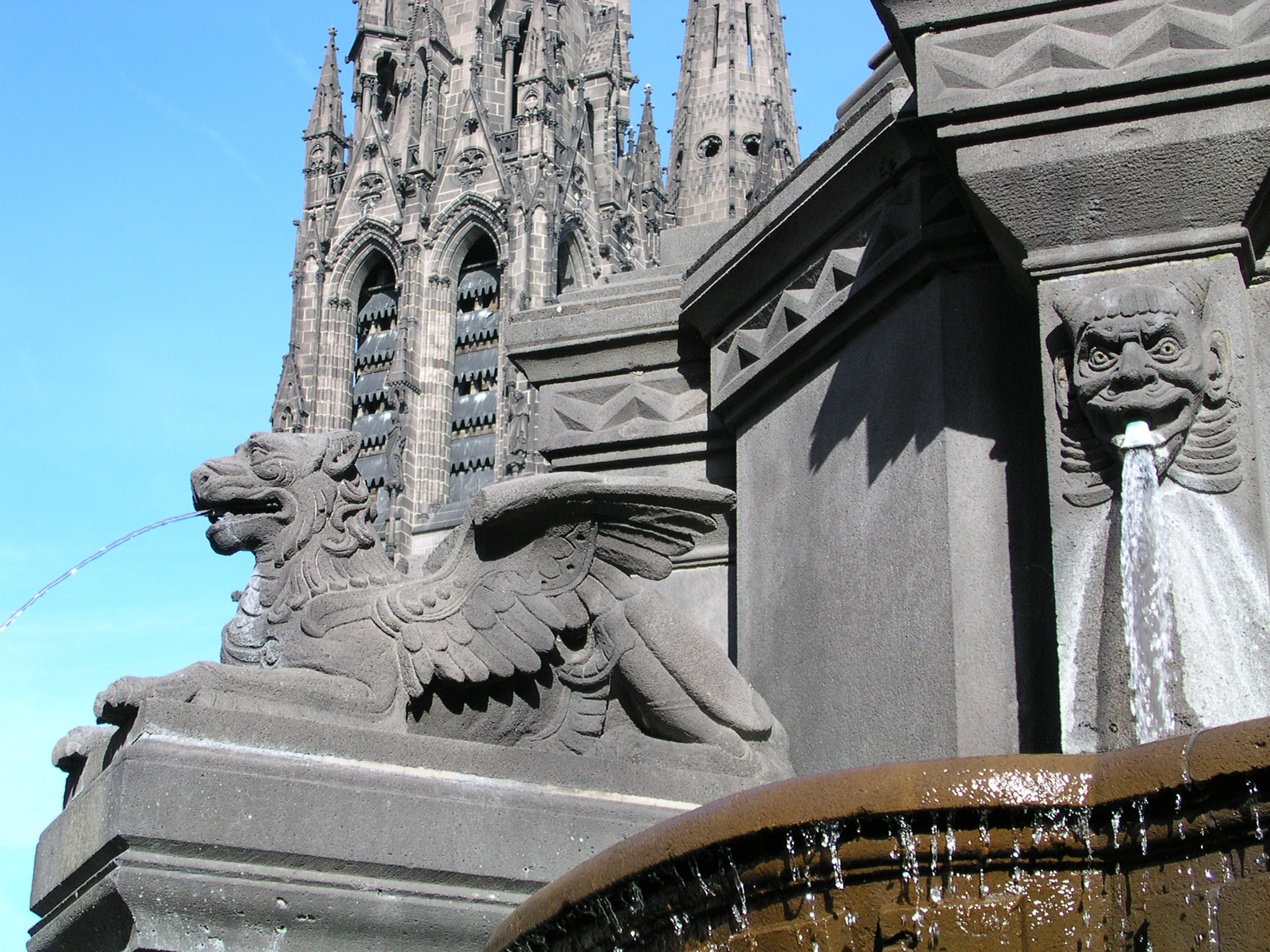 "Fontaine Urbain II" (Urbanus II fountain) in Clermont-Ferrand (Puy-de-Dôme, France), "place de la victoire". It was sculpted by Henri Gourgouillon